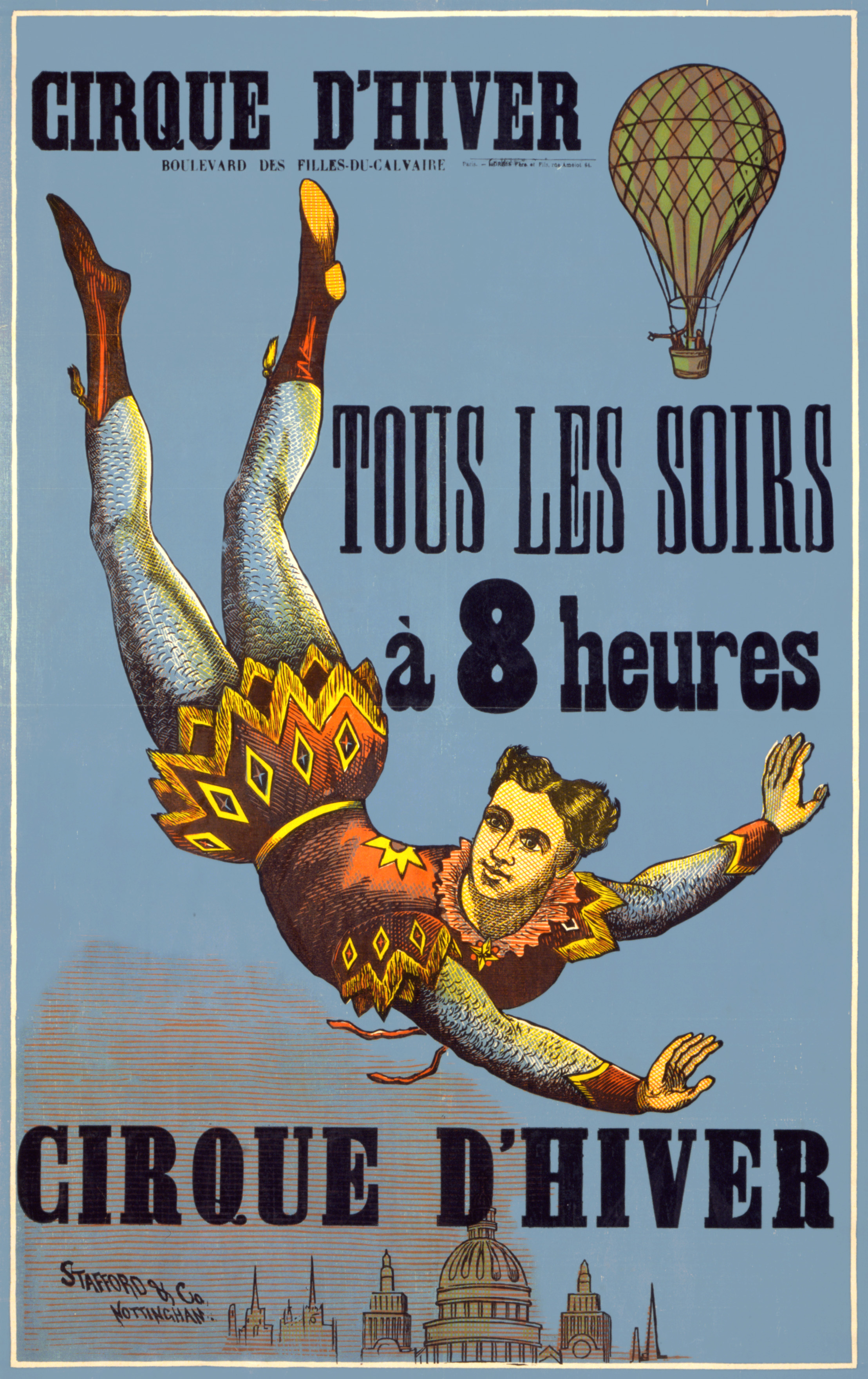 Poster for Cirque d'Hiver (winter circus) shows an aerialist floating with arms outstretched above a city skyline with a balloon in the background. Text: "Cirque d'Hiver, Boulevard des Filles-du-Calvaire, Paris. Tous les soirs à 8 heures (every evening at 8 o'clock)." 1 print (poster) : woodcut, color.